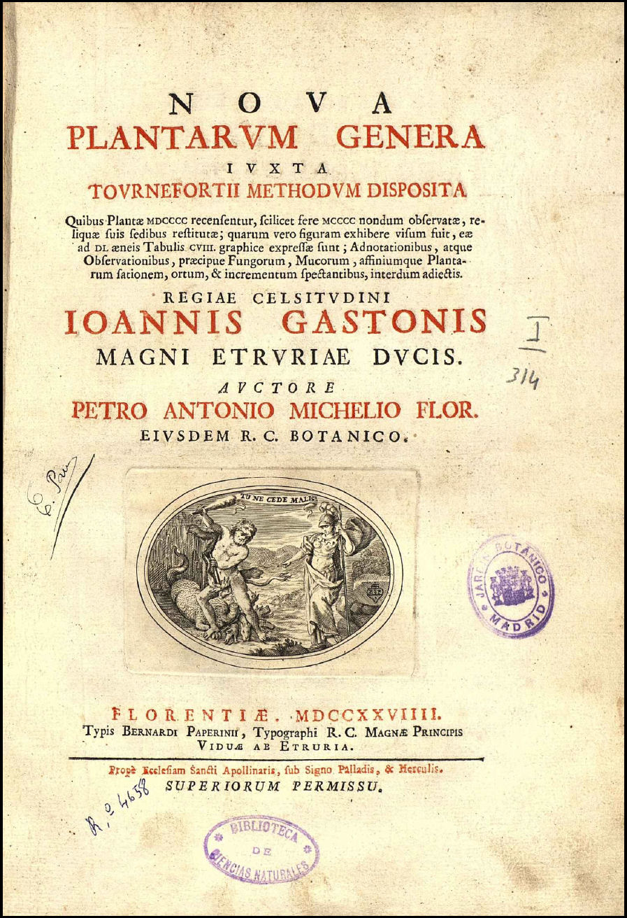 Micheli, P.A. (1729), Nova Plantarum Genera titel page.